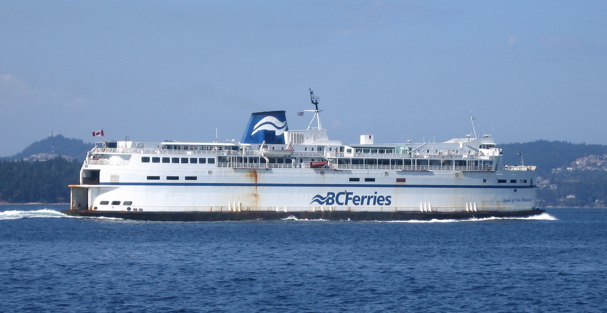 Queen of New Westminster off the coast of Vancouver Island IMO Number: 6413663 Official Number 322953 Port of Registry Victoria, B.C. Flag Canadian Type Ro/Ro1 passenger/vehicle ferry, capable of carrying 286 vehicles and 1,360 passengers Built 1964, Victoria, B.C. Gross Tons 8,785.8 Length 129.98 m Breadth 23.93 m Propulsion Four Wärtsilä 9R32D diesels, developing 3,375 kW each, driving two controllable-pitch propellers Speed (knots) 20.0